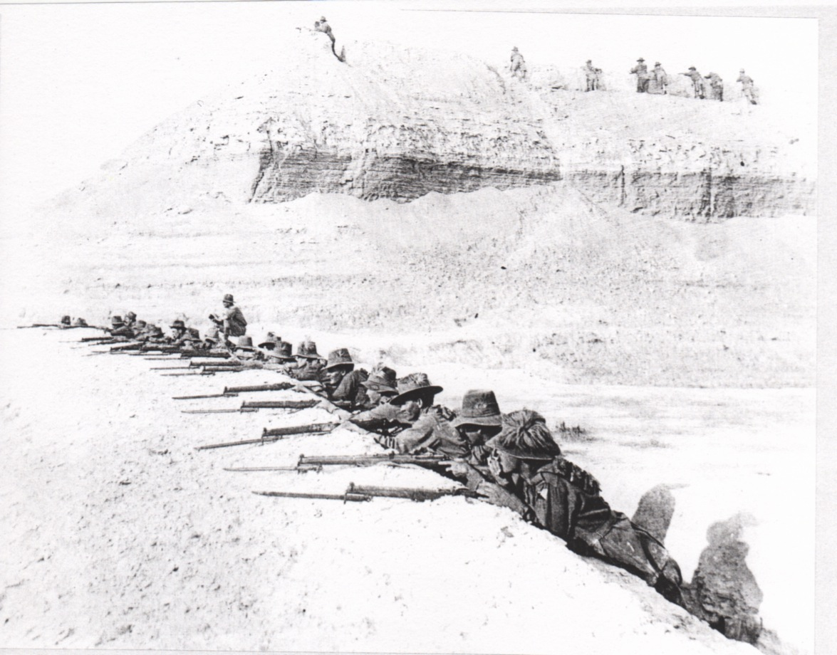 The 5th Light Horse Regiment on alert, left bank outpost Ghoranyeh Bridgehead